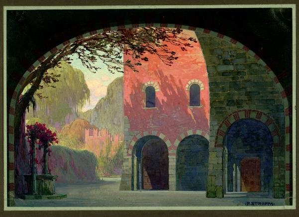 Scene scetches by Pietro Stroppa for the first production of Zandonais opera Giulietta e Romeo, Milan 1922 - 2. Un cortile nel palazzo dei Capuleti in Verona